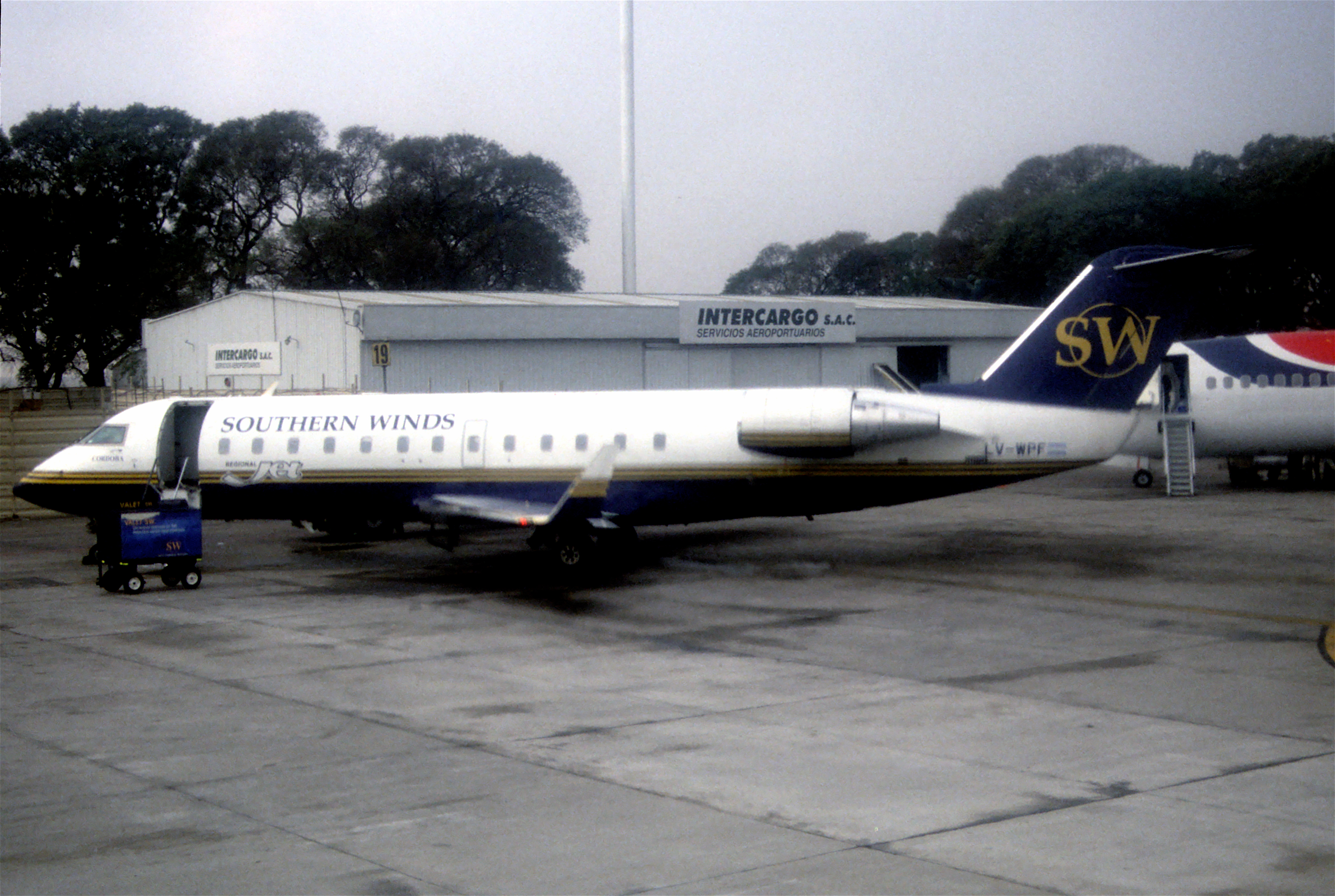 106be - Southern Winds Canadair CRJ100LR; LV-WPF@AEP;22.08.2000